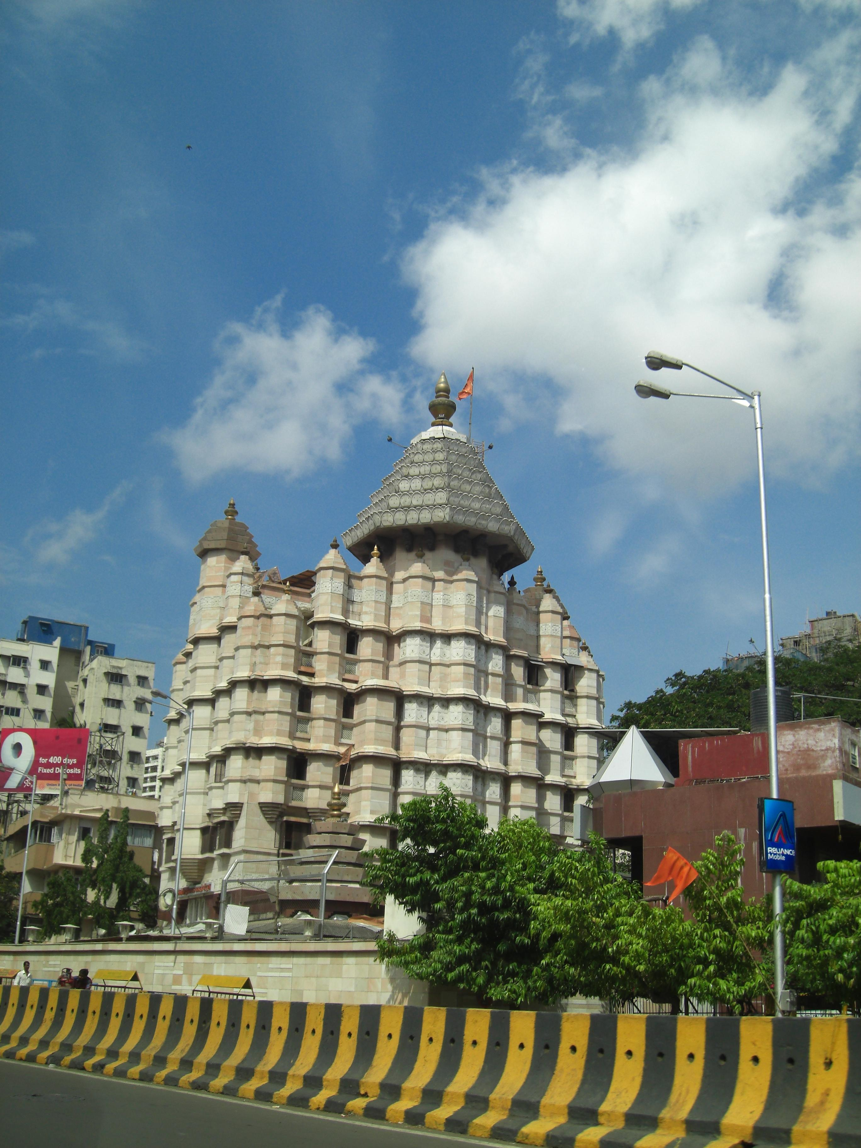 One of the richest temples in India , this Siddivinayak temple is considered the most powerful Ganesha . The Ganesha Idol in this temple has the trunk facing right which is considered very powerful.